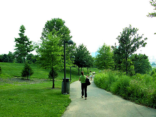 Louisville, Kentucky's downtown Waterfront Park provides a scenic and relaxing place to enjoy some of life's finer pleasures after a busy day at work. Photo by Derek Cashman.